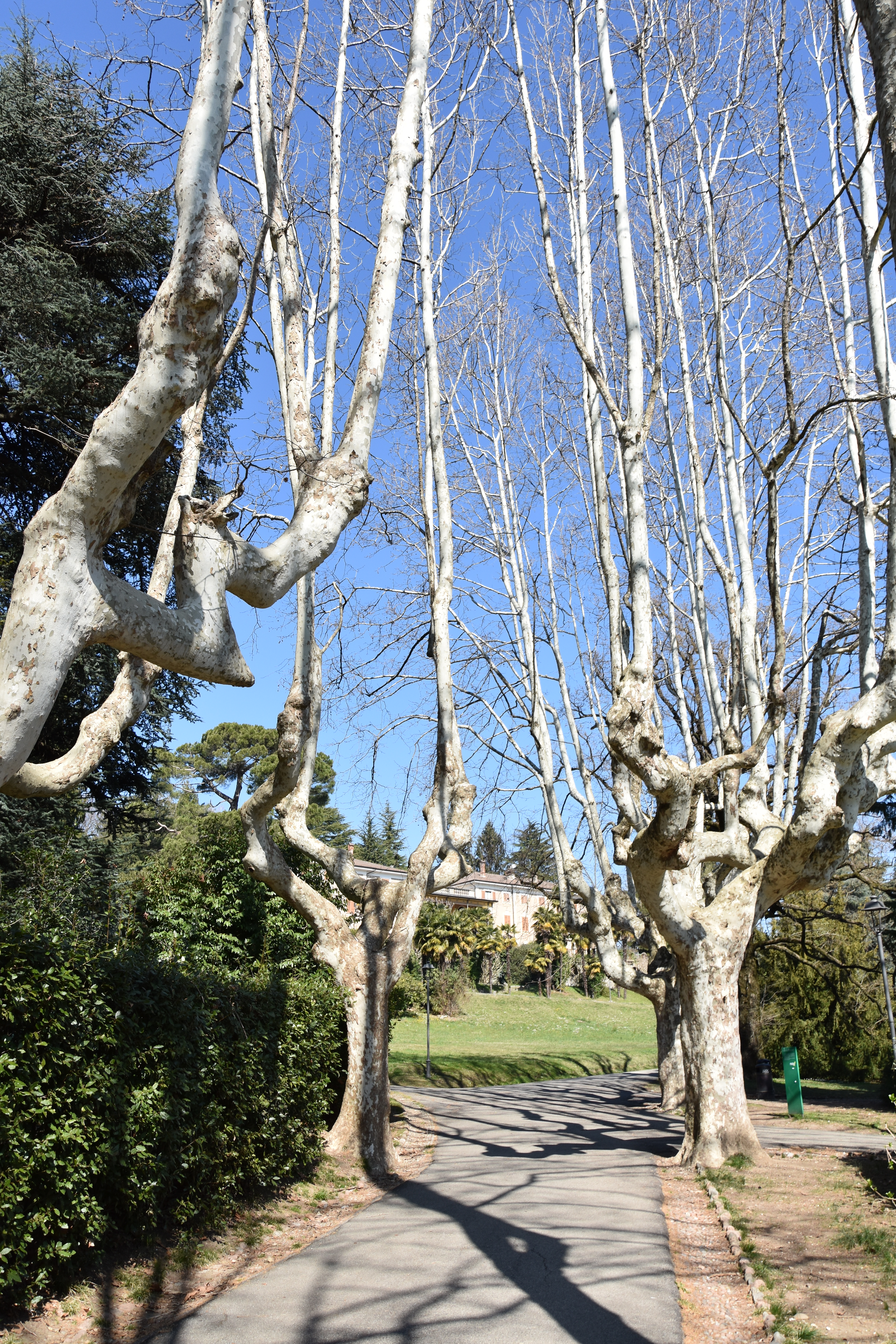 Villa Mylius in Varese, Italy.